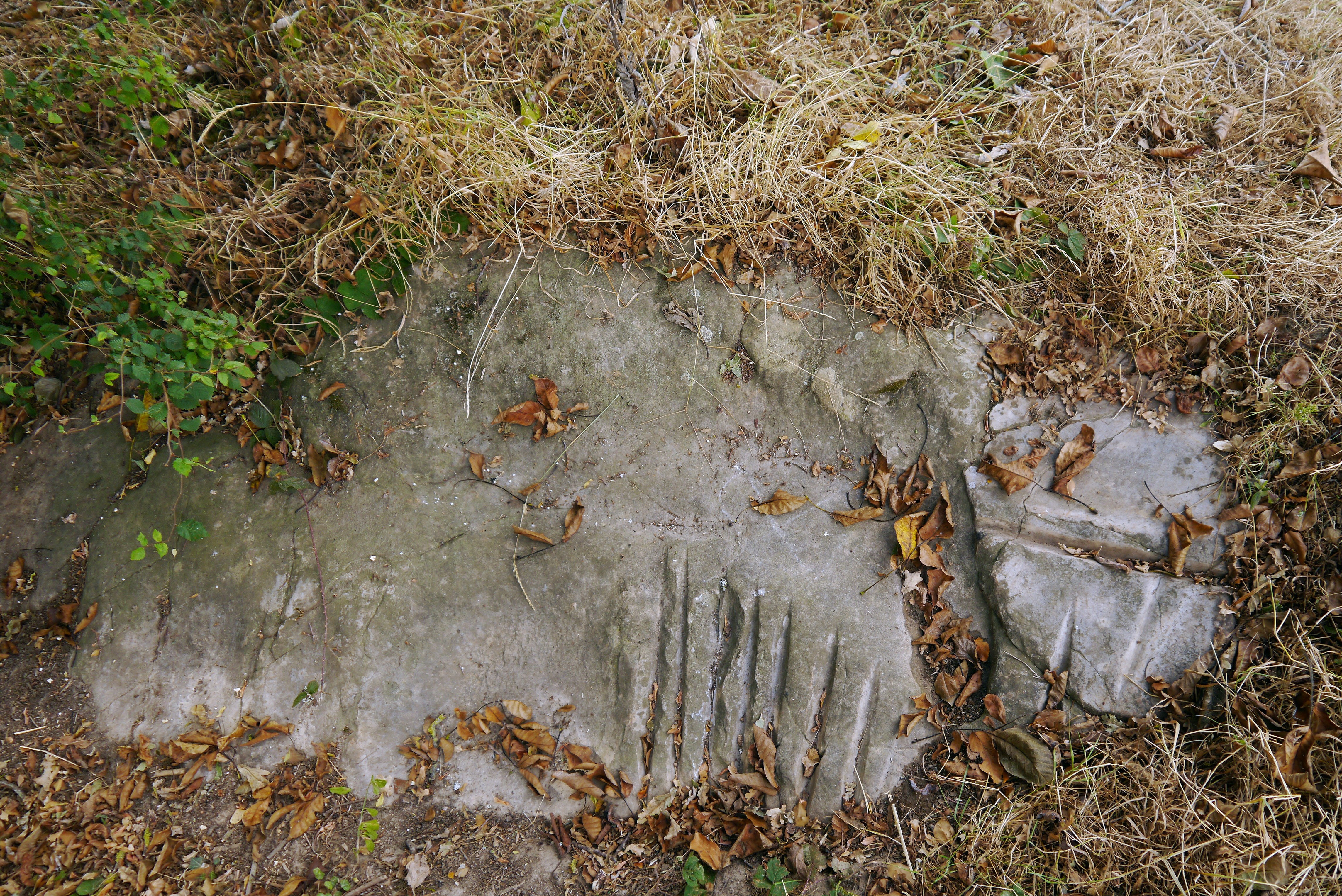 Buno-Bonnevaux, Essonne, France. Polissoir de Grimery.